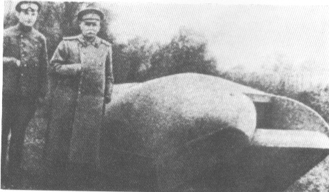 This is a picture of the 'Vezdekhod' prototype tank, taken sometime in 1915. This image occurs on the internet at multiple locations.